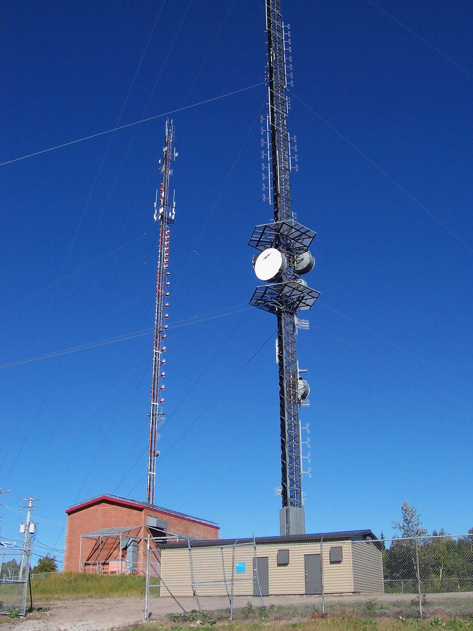 Communication towers at the summit of Mont Bélair, Val-Bélair, Laurentien borough, Quebec City (Quebec, Canada), september 8th, 2007.